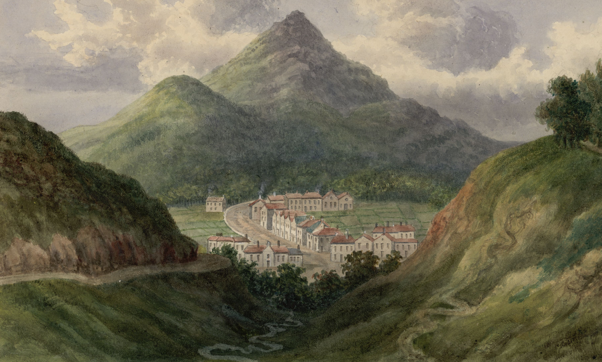 Numerous drawings and landscapes of villages, towns and landmarks in Wales and Ireland. By French artist Alphonse Dousseau.